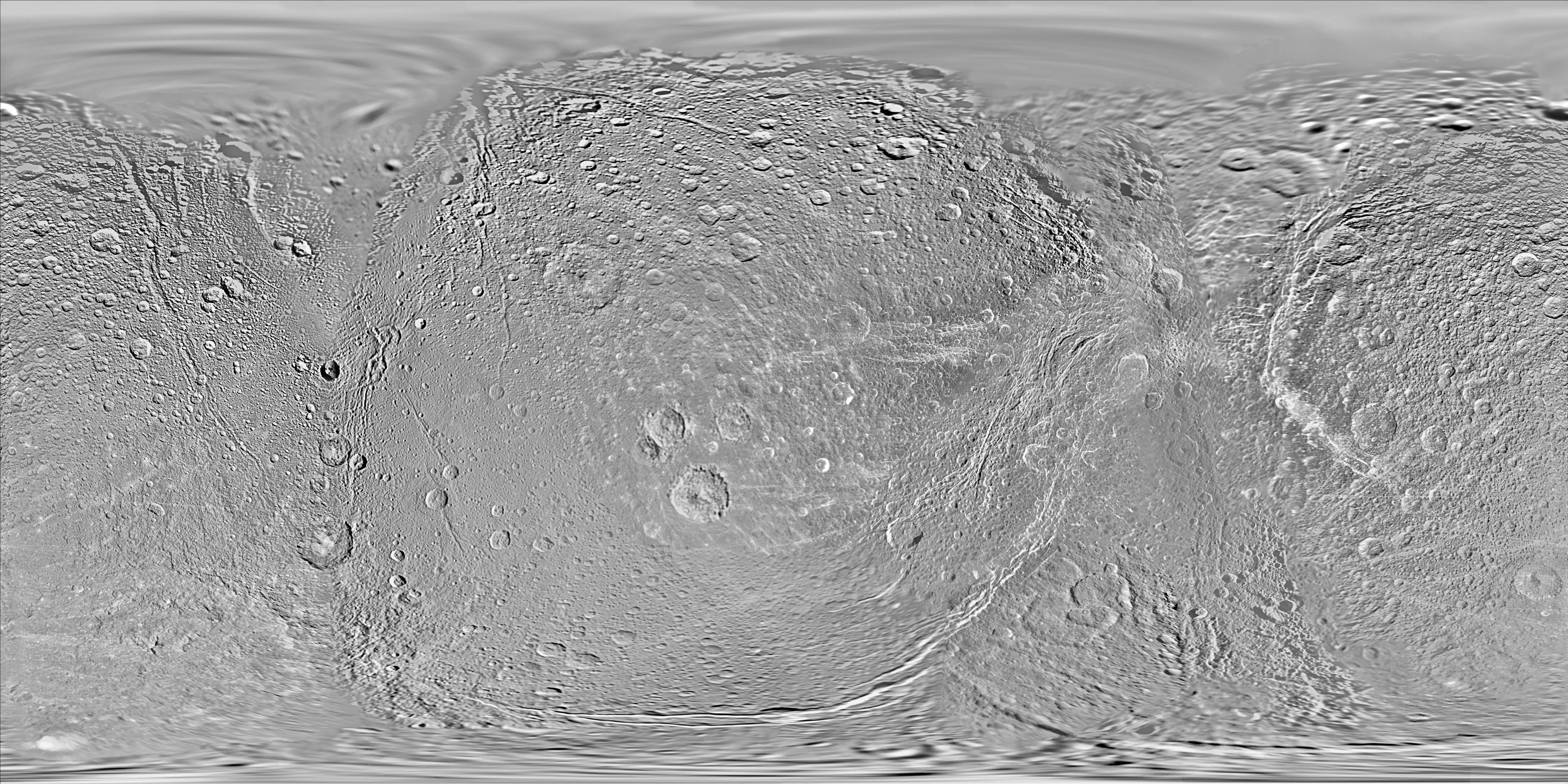 This global map of Saturn's moon Dione was created using images taken during Cassini spacecraft flybys, with Voyager images filling in the gaps in Cassini's coverage. An extensive system of bright ice cliffs created by tectonic fractures adorns the moon's trailing hemisphere. The map is a simple cylindrical (equidistant) projection and has a scale of 614 meters (2,014 feet) per pixel at the equator. The mean radius of Dione used for projection of this map is 562 kilometers (349 miles). This updated map has been shifted west by 0.6 degrees of longitude, compared to the previously released Cassini product (PIA08341), in order to conform to the International Astronomical Union longitude system convention for Dione. The Cassini-Huygens mission is a cooperative project of NASA, the European Space Agency and the Italian Space Agency. The Jet Propulsion Laboratory, a division of the California Institute of Technology in Pasadena, manages the mission for NASA's Science Mission Directorate, Washington, D.C. The Cassini orbiter and its two onboard cameras were designed, developed and assembled at JPL. The imaging operations center is based at the Space Science Institute in Boulder, Colo.